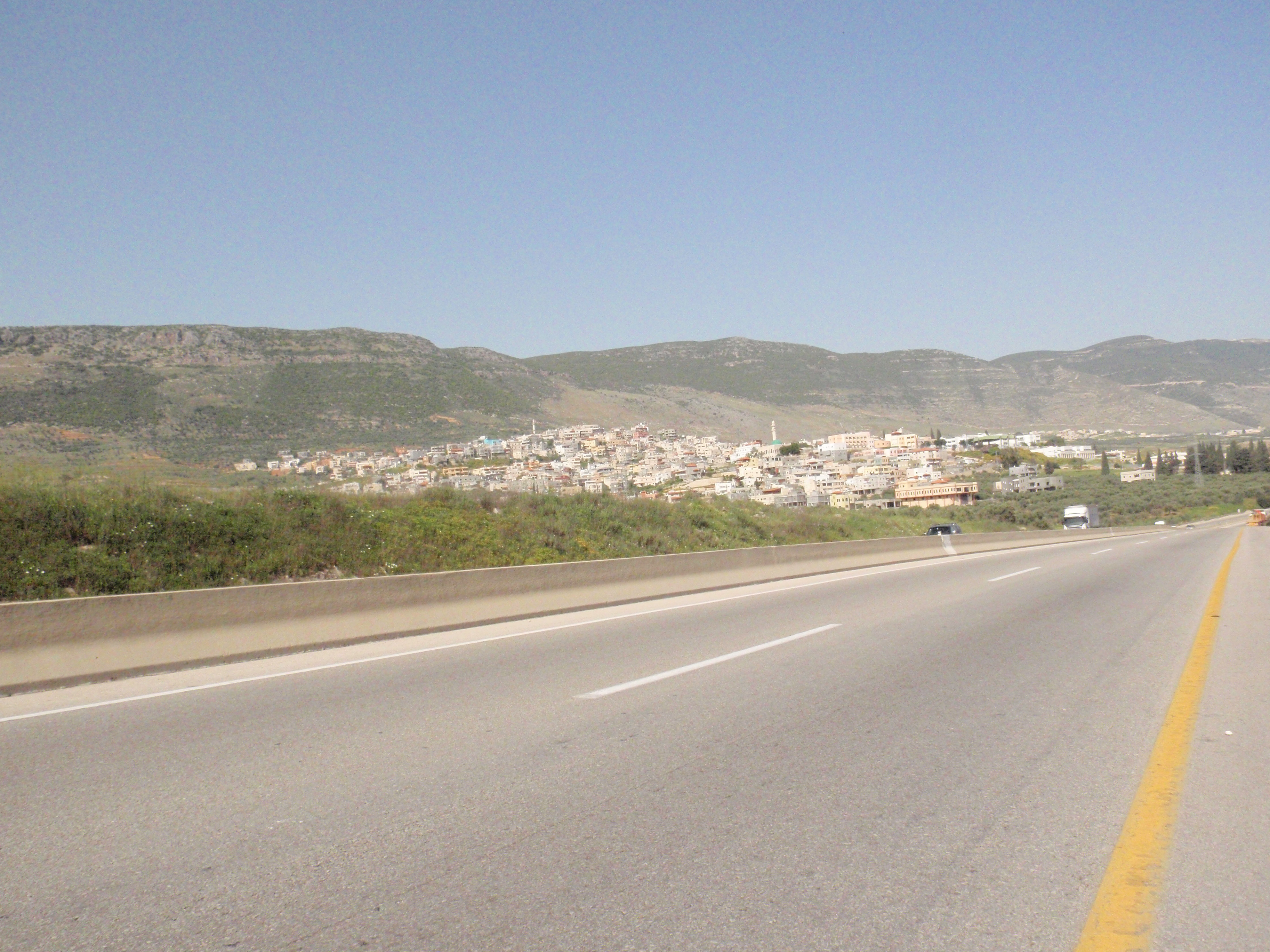 Israel - Galilee - Nahf.